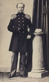 Finnish nobleman, governor and a genera-mayor of the Russian Imperial Army Johan Axel Cedercreutz (1801-1863)